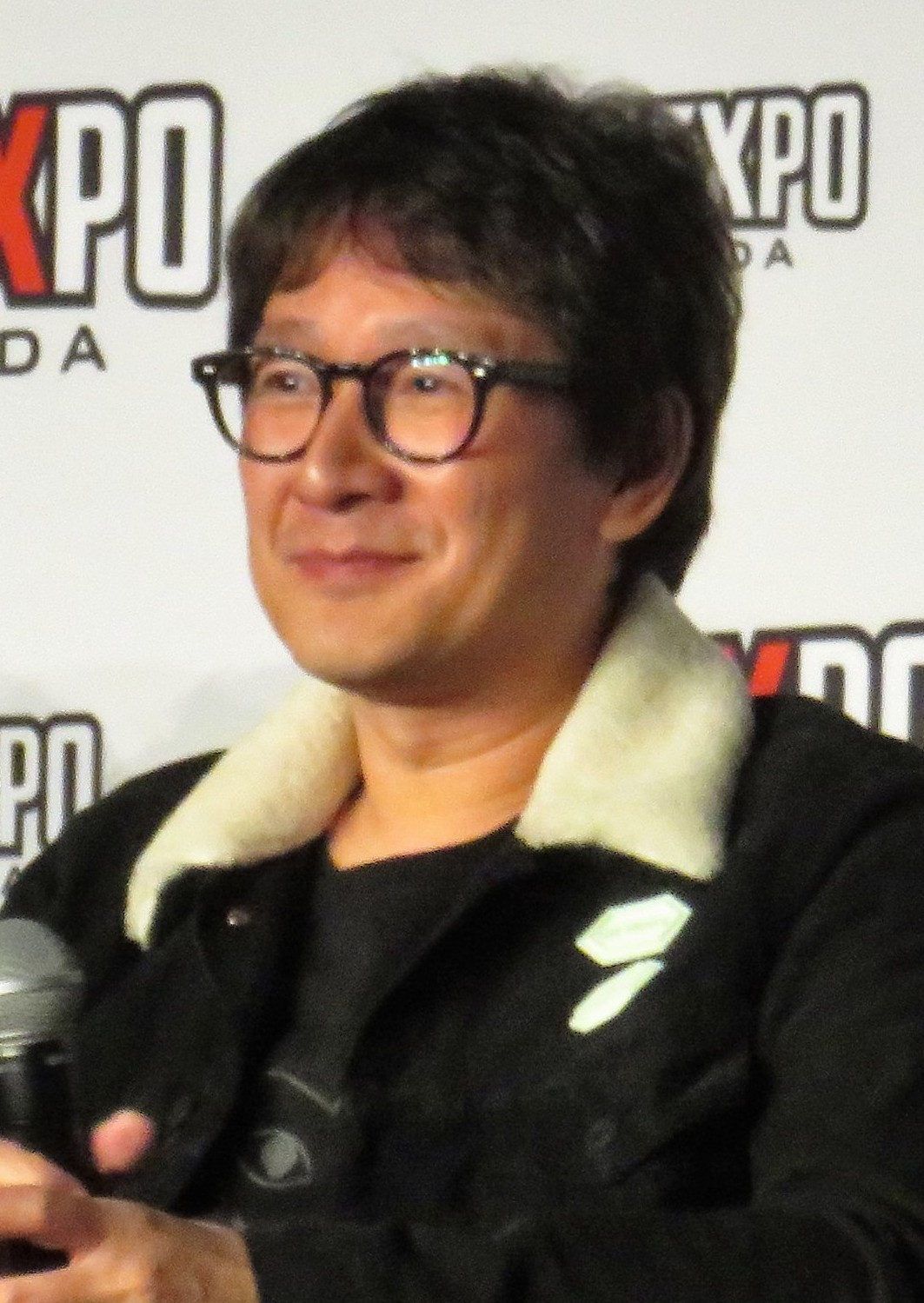 Jonathan Ke Quan